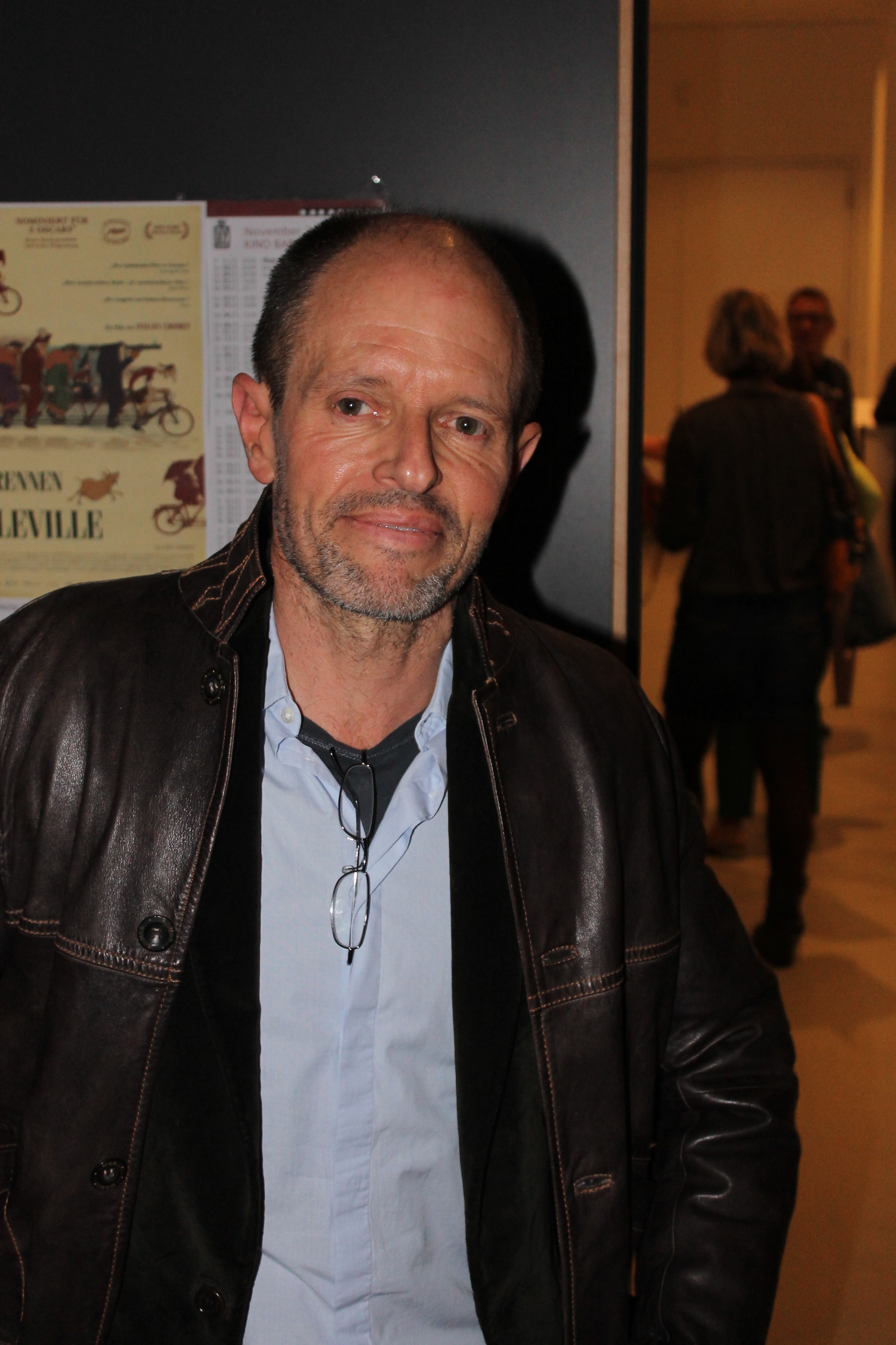 French author Bernard Minier at a crime fiction festival in Hagen, Germany, in October 2014.